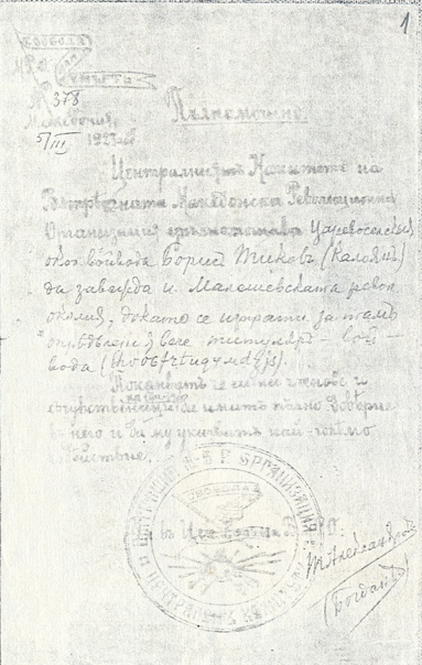 Document for Boris Tikov - IMRO.